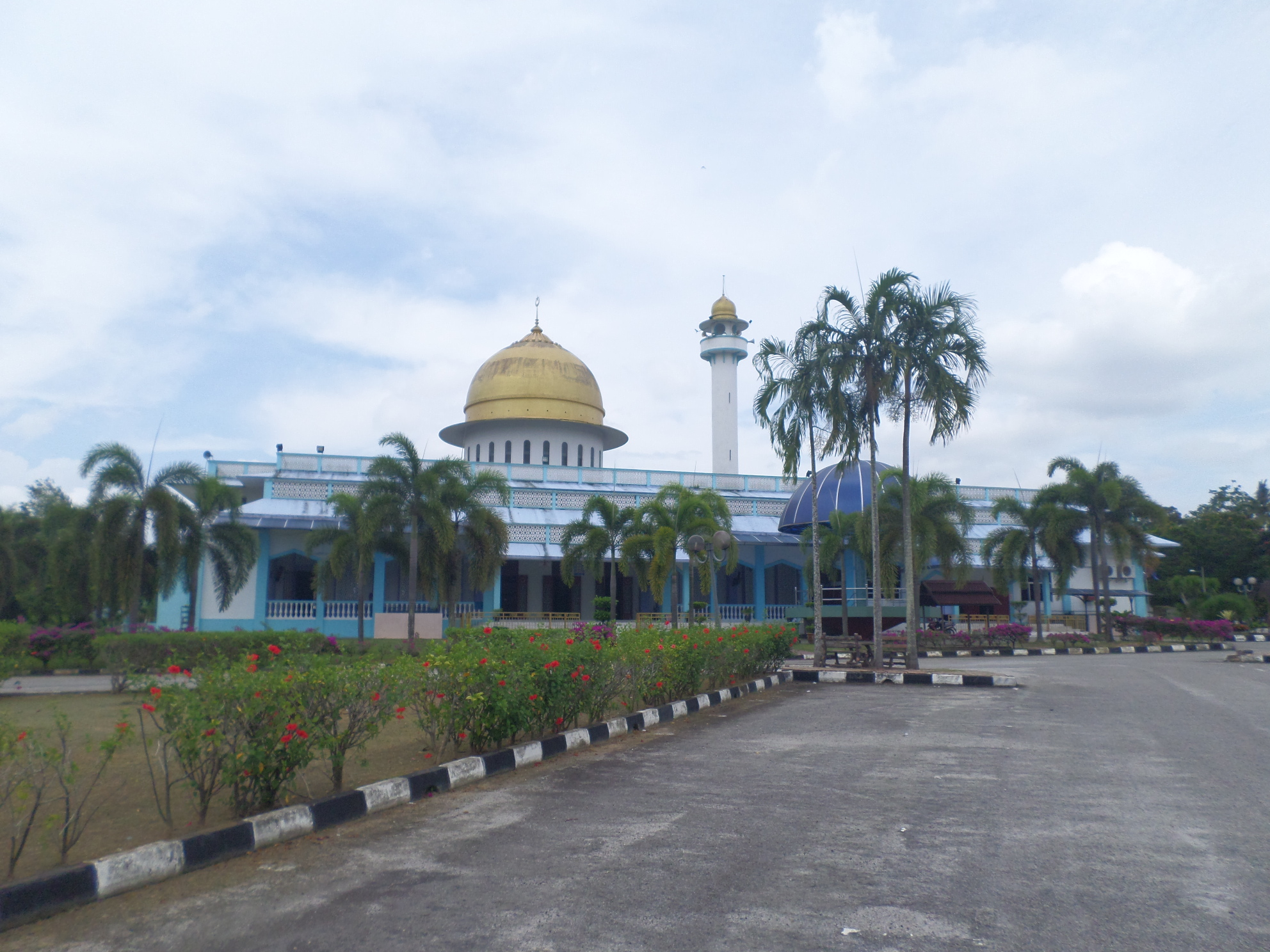 Kota Tinggi Town Mosque, Kota Tinggi, Johor, Malaysia